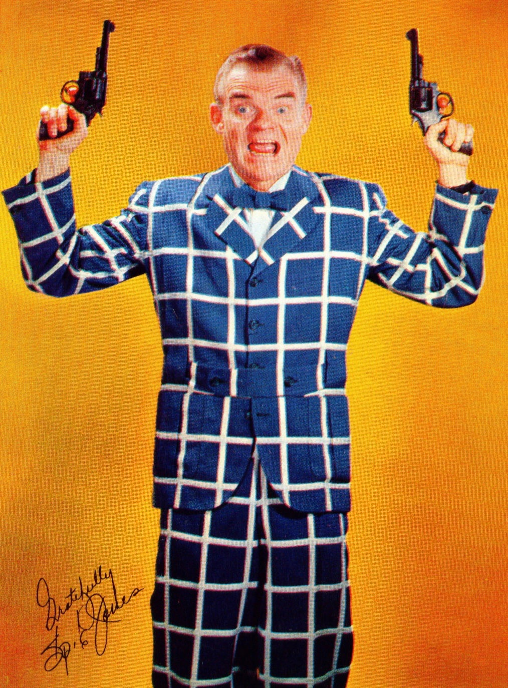 Spike with 2 guns